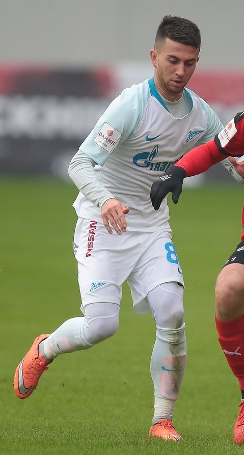 Dmitri Bogayev with FC Zenit-2 Saint Petersburg in a game against FC Khimki.